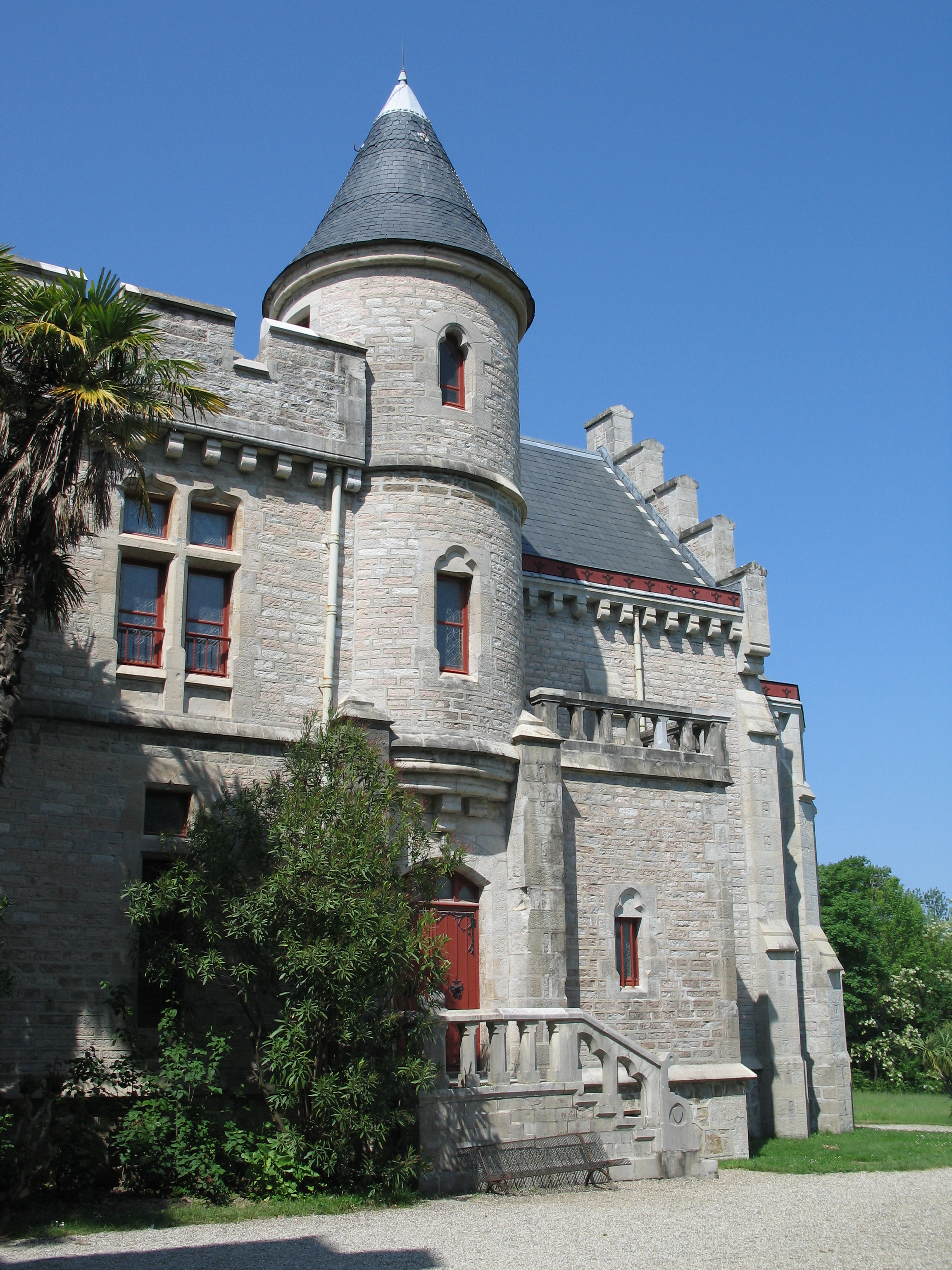 Château d'Abbadie in Hendaye, castle chapel